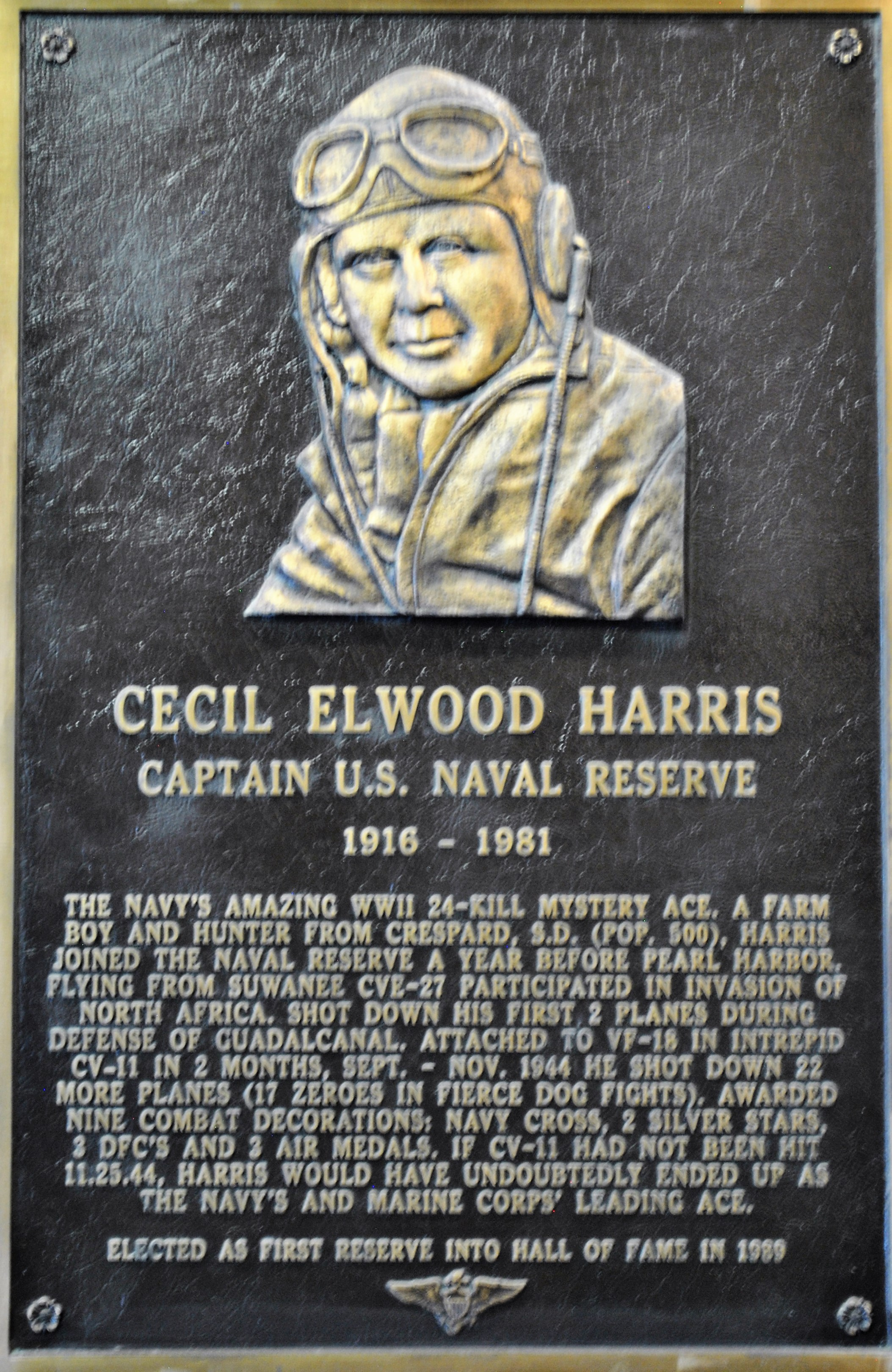 Cecil E. Harris's plaque in the Carrier Aviation Hall of Fame aboard the USS Yorktown.